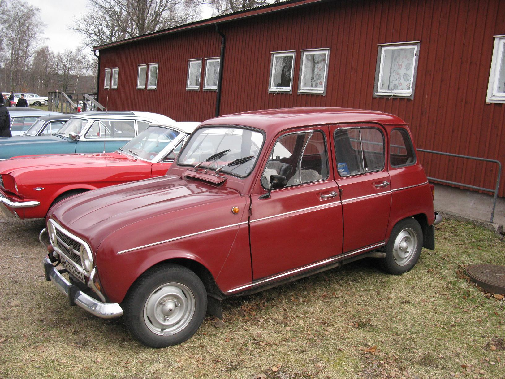 1973 Renault 4, 845cc, chassis number 5150032, registered in Norway.